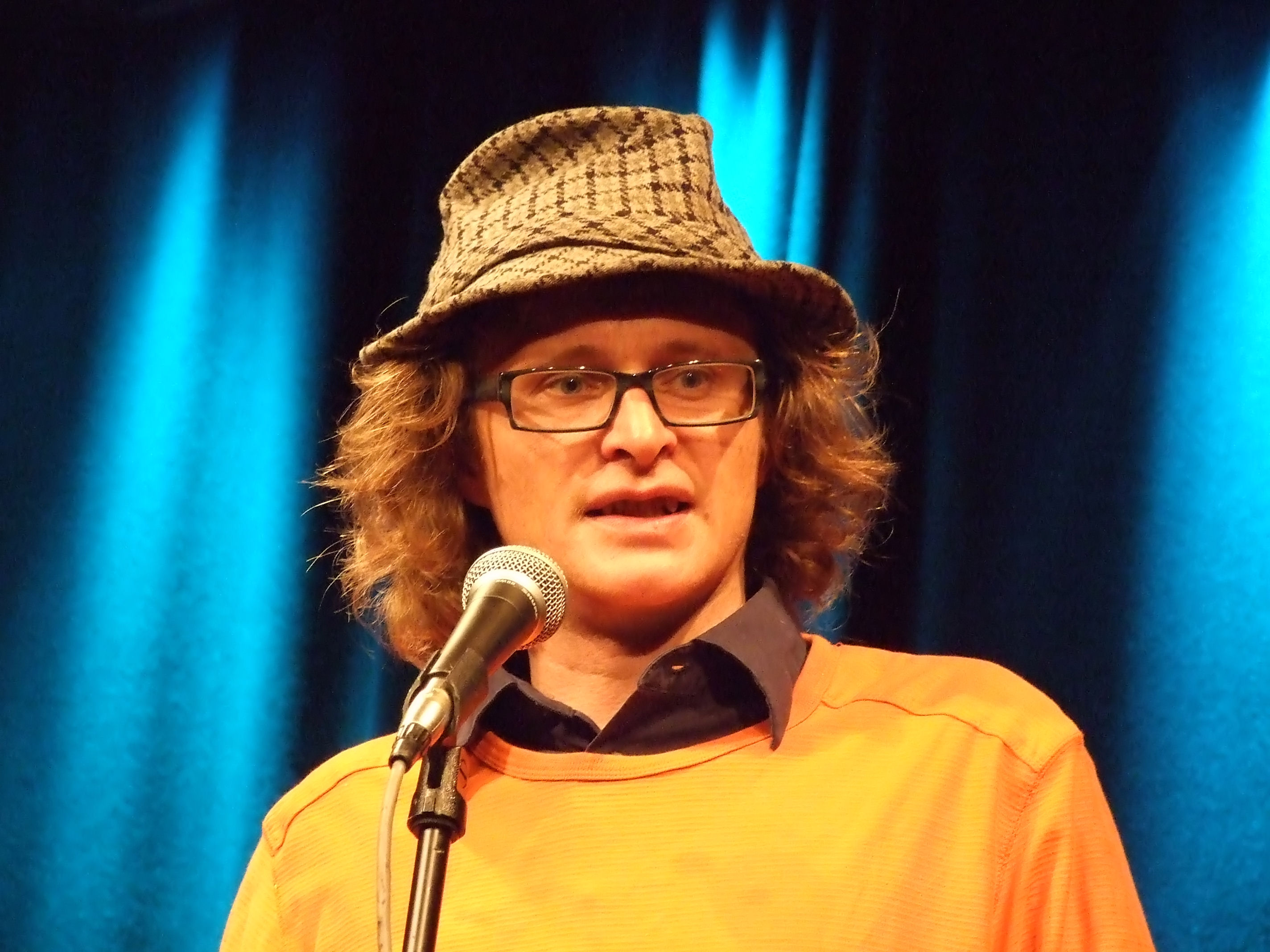 Simon Munnery at Chapter Arts Centre, 25/05/07